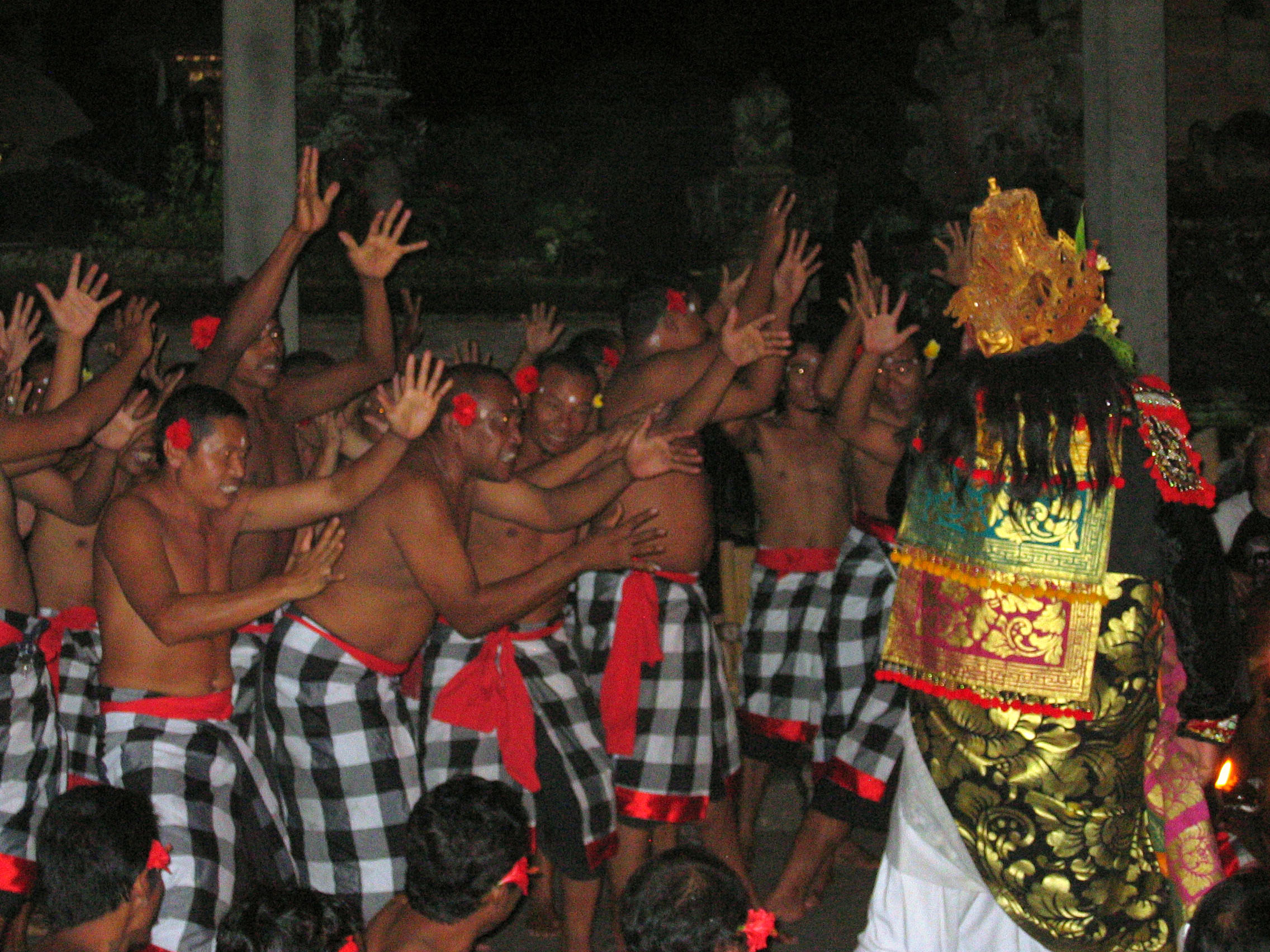 Dance performance of the Ramayana on Bali. Original caption: sita is held prisoner in a park and Rahwana's nephew, Trijata tries to convince her to marry Rahwana...Sita becomes depressed and thinks Rama has forgotten her..